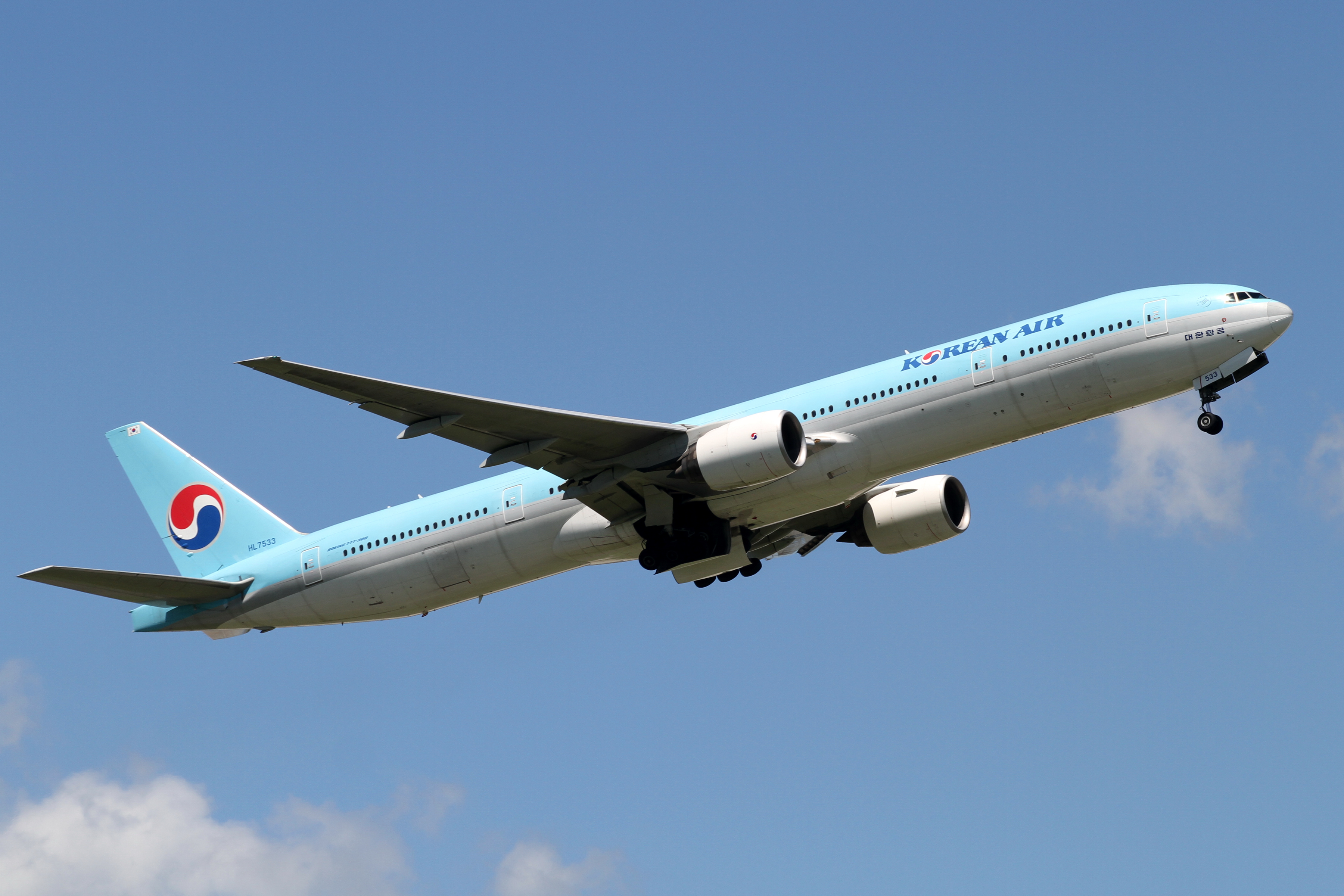 Narita International Airport, Boeing 777-3B5, c/n:27948, Korean Air